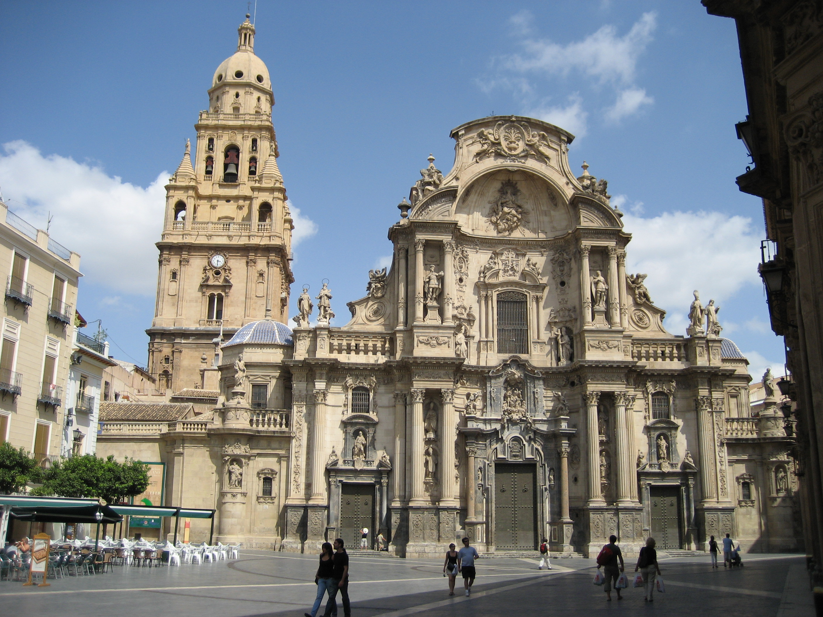 the cathedral of Murcia in Spain